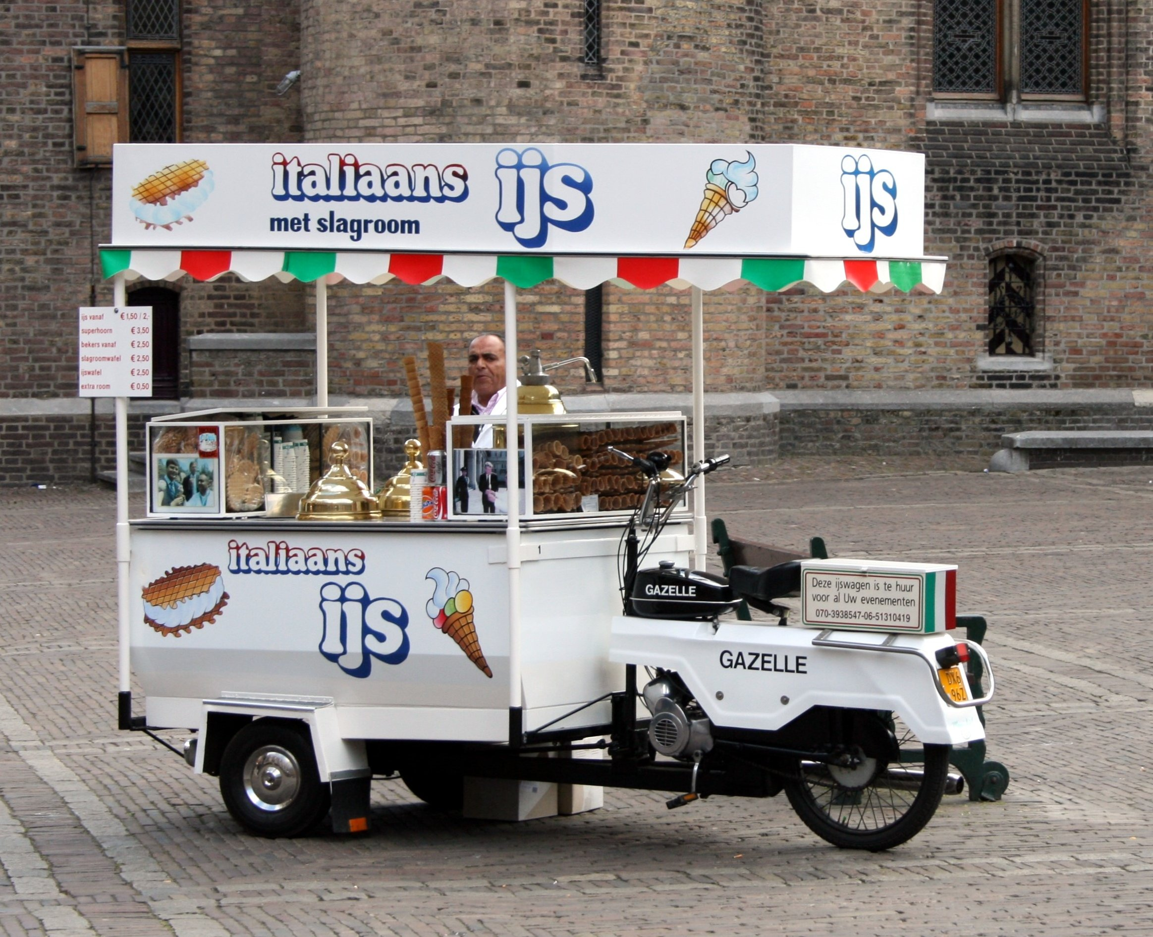 a three wheeled transportation motorbike (manufacturer company: Gazelle, netherlands) for selling ice cream; taken in the netherlands, Den Haag inside the Binnenhof. In dutch, those type of vehicles is called "bakbromfiets" or "bakbrommer").